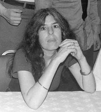 Photo of catherine yronwode